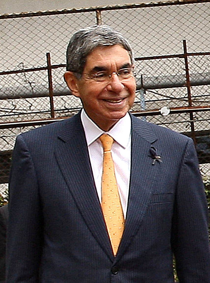 Óscar Arias Sanchez